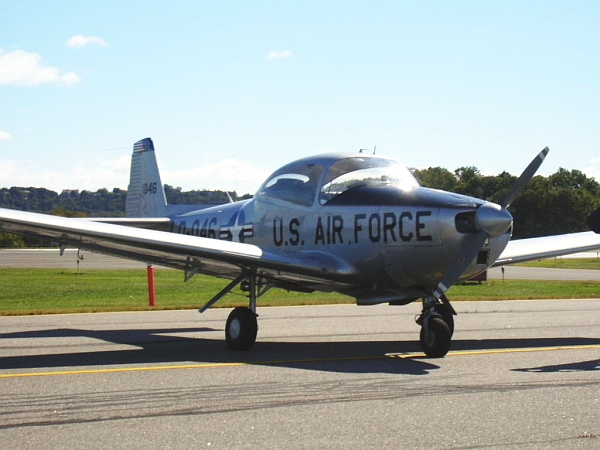 A Ryan Navion Aircraft at the Portland Jetport (Portland Maine, USA) in September of 2004.